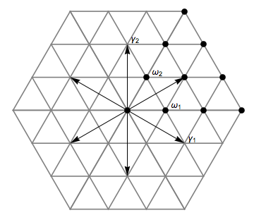 The image shows the integral elements, fundamental weights, and dominant integral elements for the A2 root system